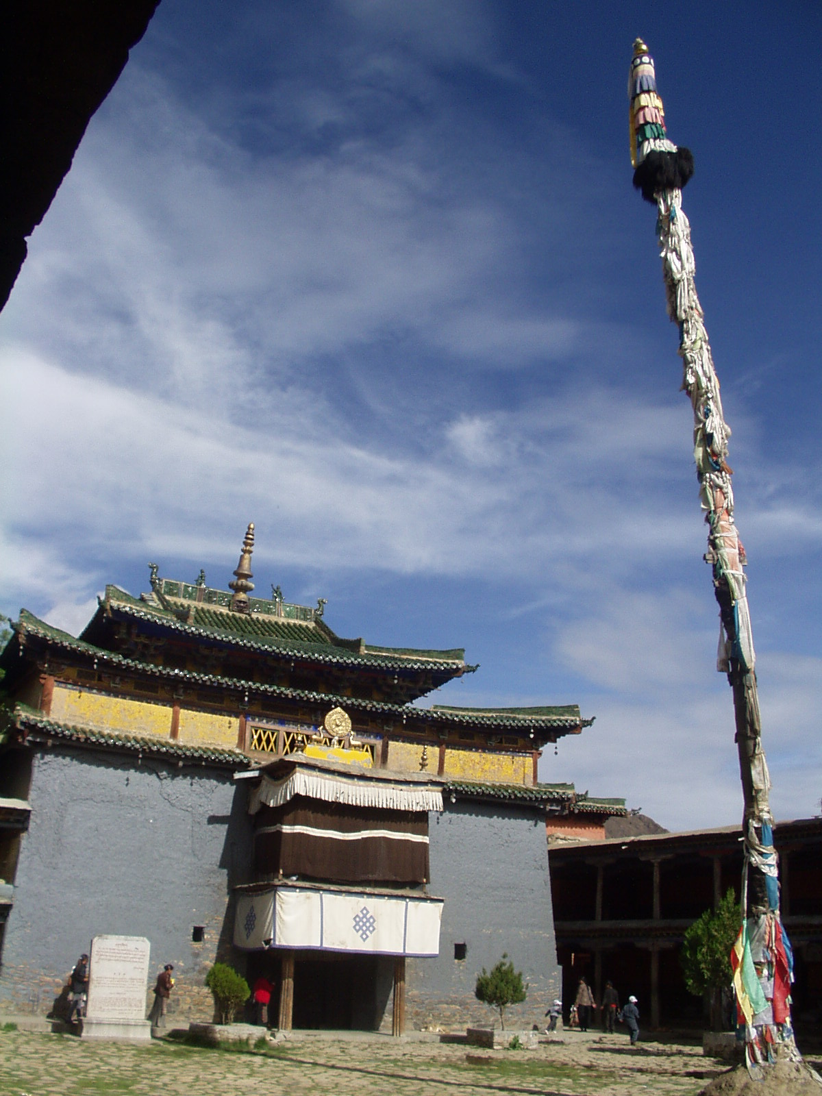 Shalu Temple, Tibet